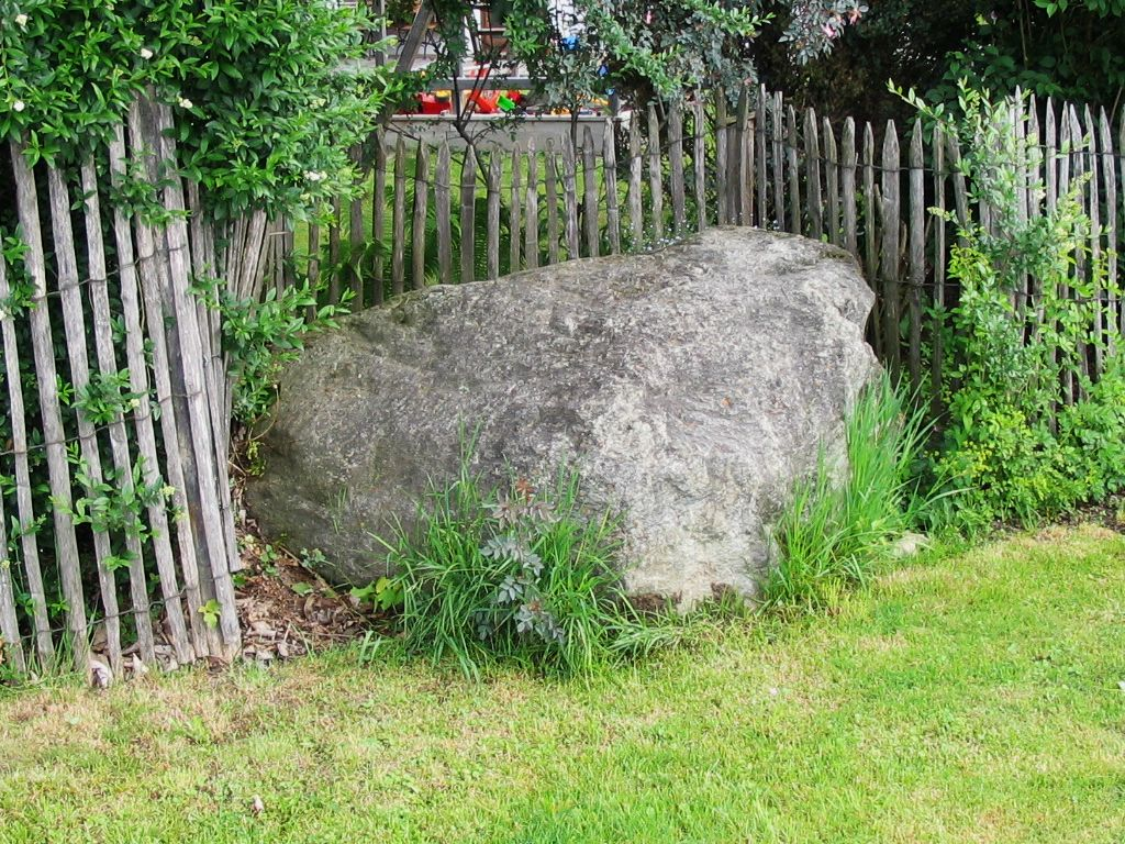 glacial erratic seen in Waldering, Stephanskirchen